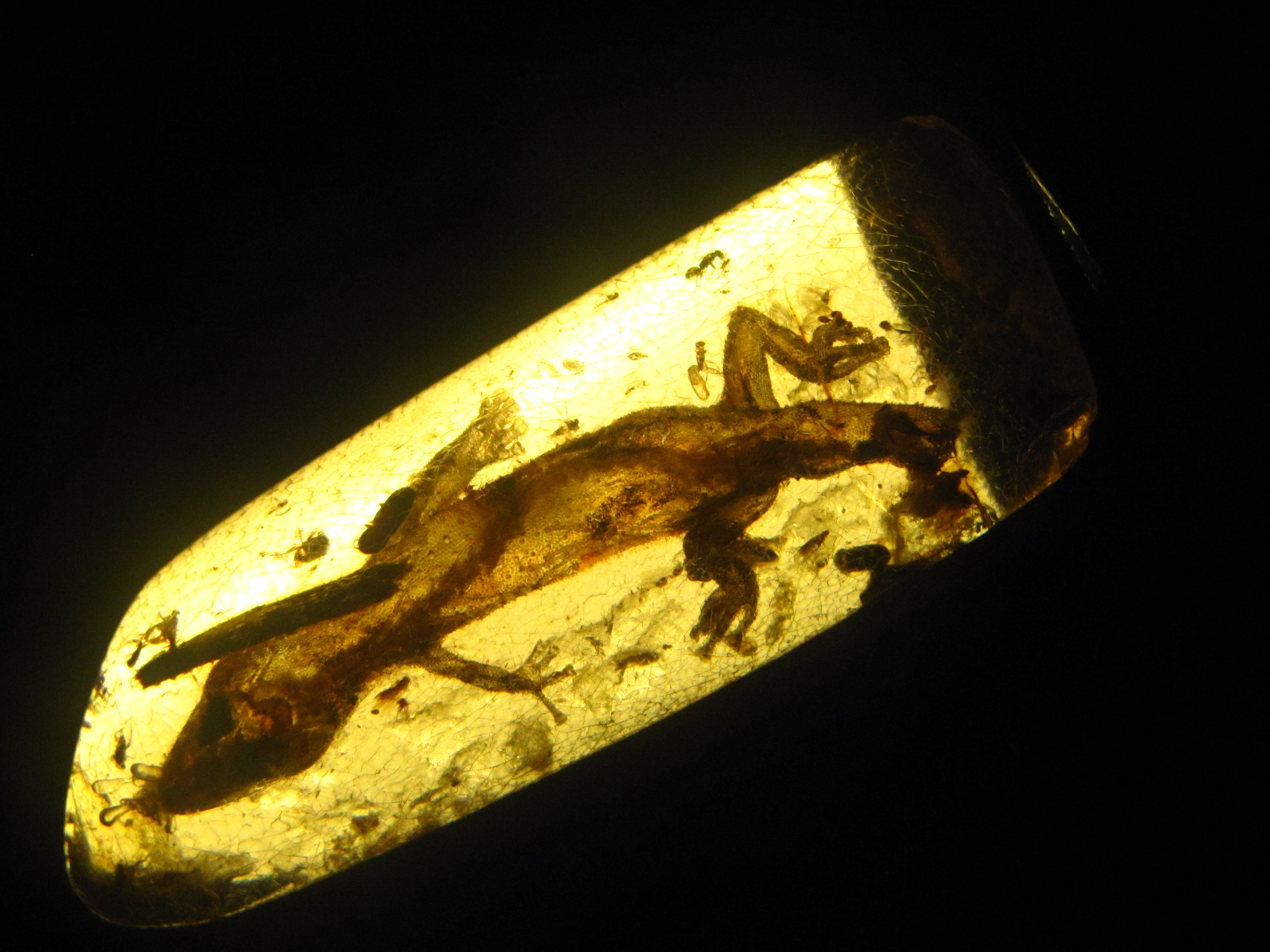 Oligocene-era gecko trapped in amber. Part of the Somerville Collection. Taken on 2 July, 2011, at the Australian Fossil and Mineral Museum (Bathurst NSW Australia). This photograph is licensed under a Creative Commons Attribution-ShareAlike 2.0 Generic License.